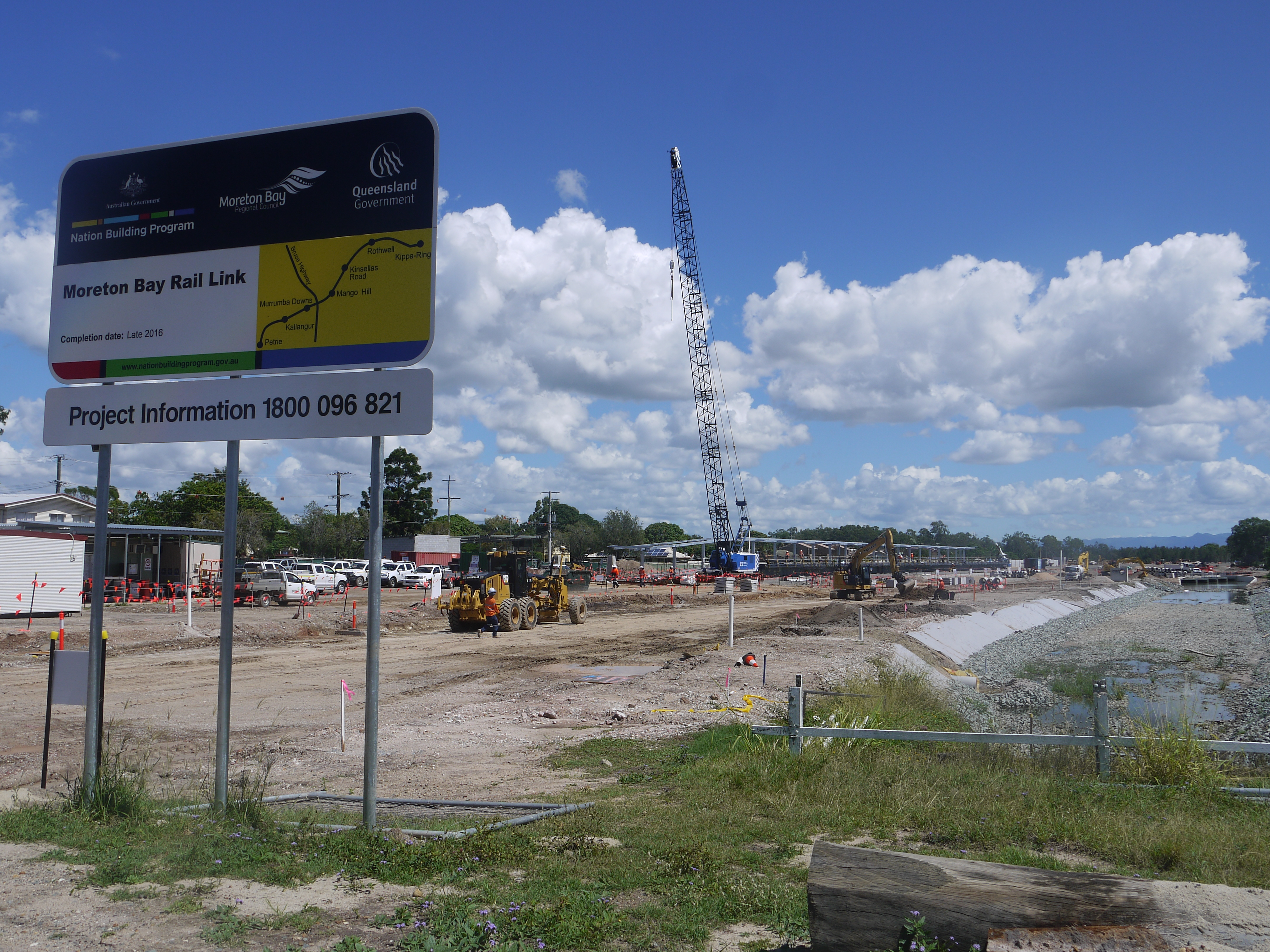 Kippa Ring Station under construction